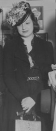 Alímedes Nelson- actriz